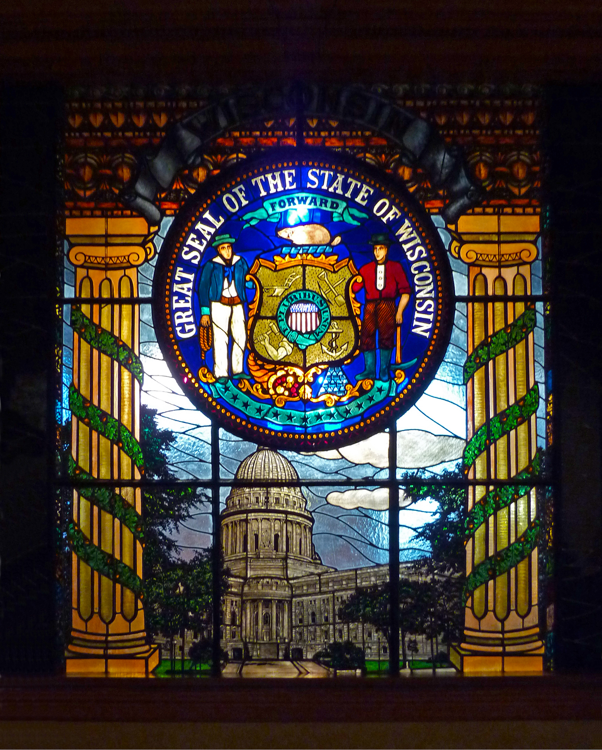 Seal of Wisconsin. Stained glass window in the City Council chamber, Milwaukee City Hall.